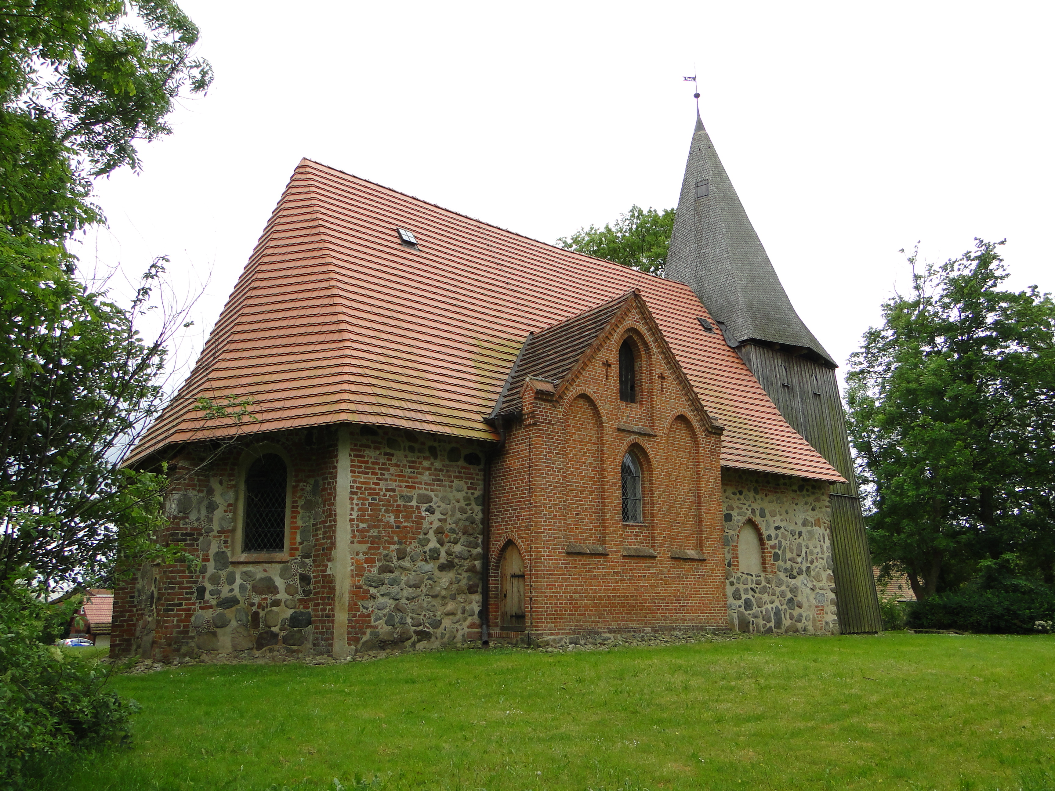 Church in Techentin, district Ludwigslust-Parchim, Mecklenburg-Vorpommern, Germany